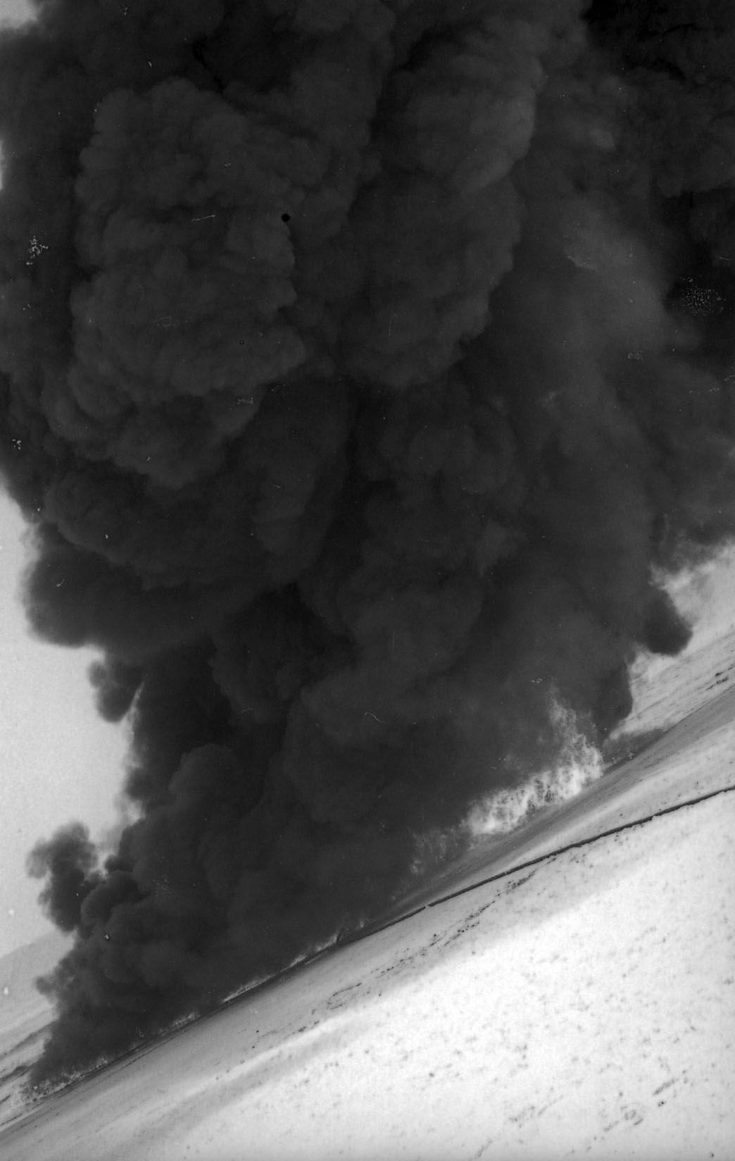 «Or Yekarot» (bright light) system, created to enable the IDF to set the Suez Canal ablaze. The system was a deception meant to deter the Egyptians from resuming their fire.